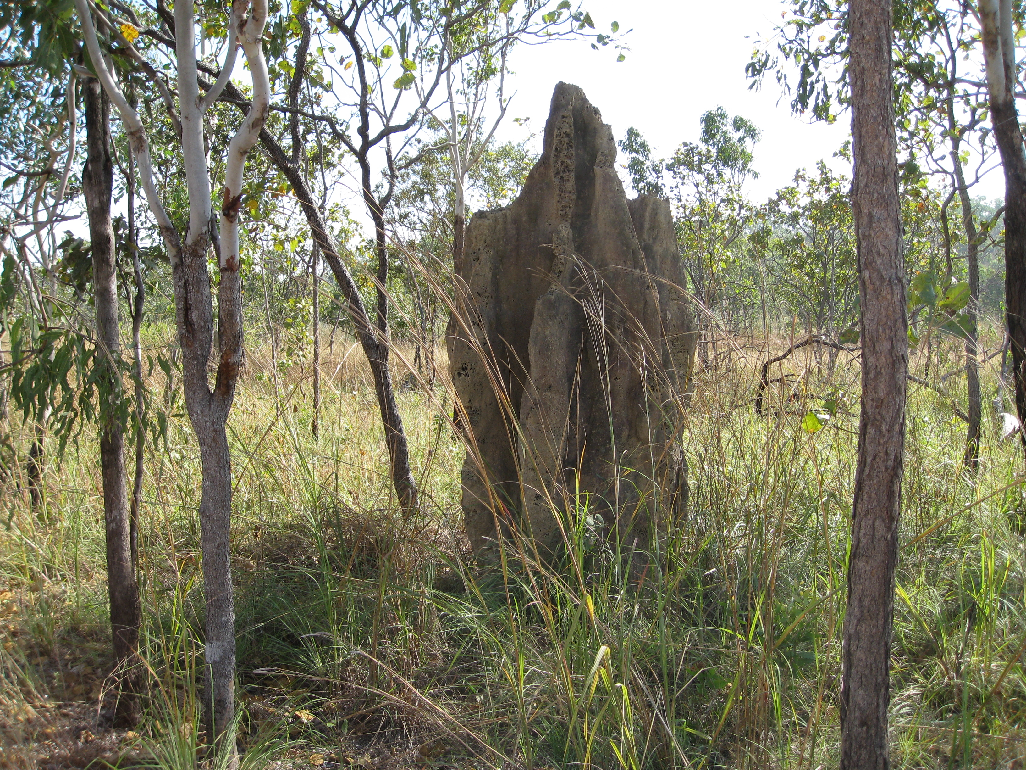 These termite mounds were most impressive. From the park sign: Cathedral Termite Mound This mound is home to a colony of grass eating termites, Nasutitermes triodiae. Kingdom:Animalia Phylum:Arthropoda Class:Insecta Subclass:Pterygota Infraclass:Neoptera Superorder:Dictyoptera Order:Isoptera Family: Termitidae Litchfield National Park, Northern Territory, Australia i09_0501 021